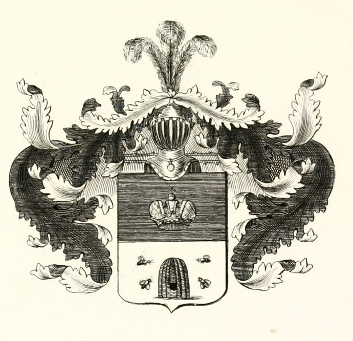 Coat of Arms of family Yakovlev